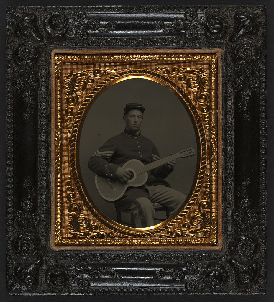 [Edwin Chamberlain of Company G, 11th New Hampshire Infantry Regiment in sergeant's uniform with guitar] [between 1861 and 1865] 1 photograph : sixth-plate tintype, hand-colored ; 12.3 x 11 cm. (frame) Notes: Frame: Berg 7-41. Title devised by Library staff. Additional information in collections file. Gift; Tom Liljenquist; 2010; (DLC/PP-2010:105) Purchased from: Heritage Auction Galleries, Dallas, Texas, 2008, from John Henry Kurtz Collection of American Civil War History. Subjects: Chamberlain, Edwin,--d. 1864. United States.--Army.--New Hampshire Infantry Regiment, 11th (1862-1865)--People. Soldiers--Union--1860-1870. Military uniforms--Union--1870-1880. Guitars--1860-1870. Musicians--1860-1870. United States--History--Civil War, 1861-1865--Military personnel--Union. Format: Portrait photographs--1860-1870. Tintypes--Hand-colored--1860-1870. Rights Info: No known restriction on publication. Repository: Library of Congress, Prints and Photographs Division, Washington, D.C. 20540 USA, Part Of: Ambrotype/Tintype filing series (Library of Congress) (DLC) 2010650518 Liljenquist Family collection (Library of Congress) (DLC) 2010650519 More information about this collection is available at Persistent URL: Call Number: AMB/TIN no. 5010